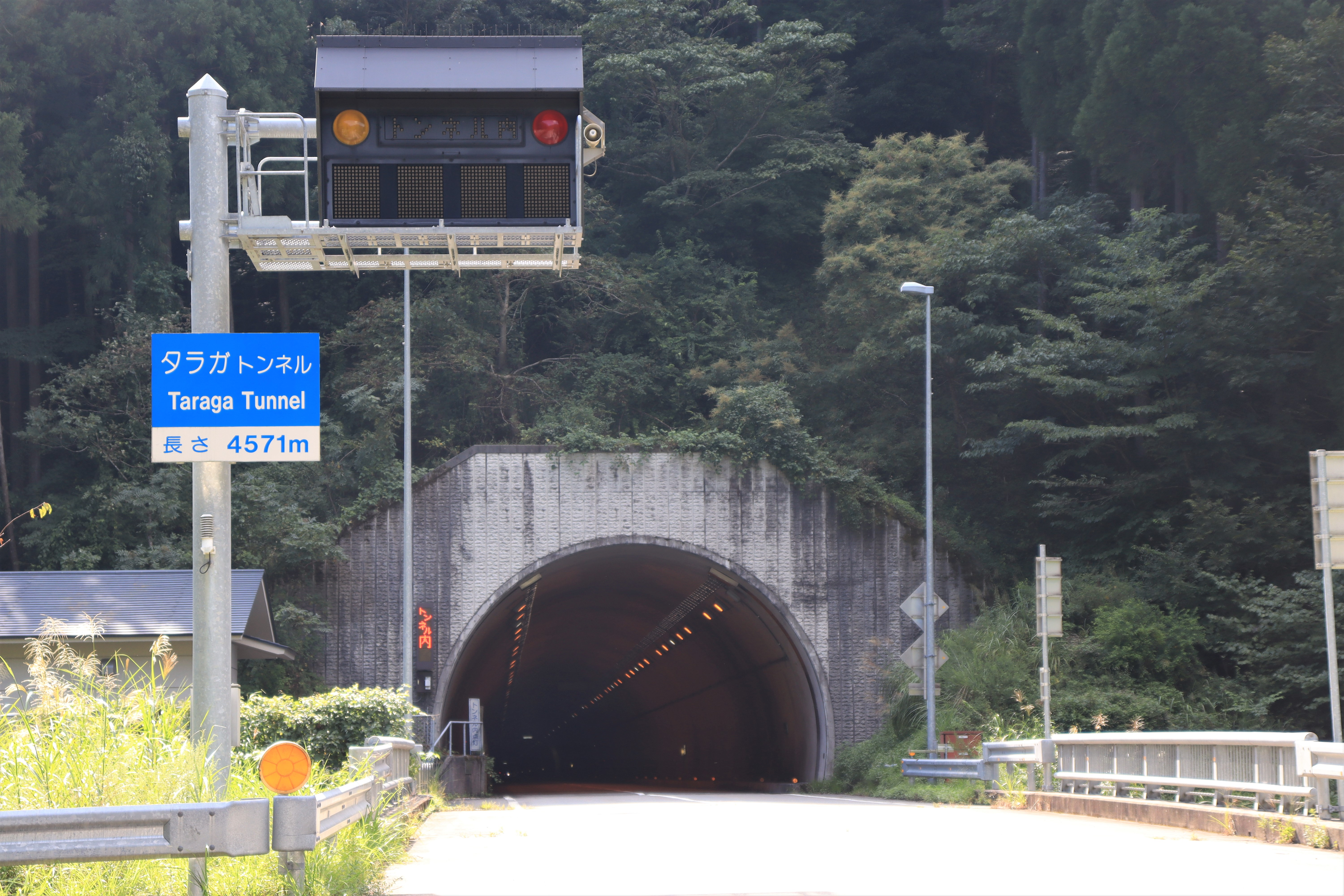 Eastern entrance of Taraga Tunnel on Route 256 in Nabi, Hachimancho, Gujo, Gifu Prefecture, Japan.